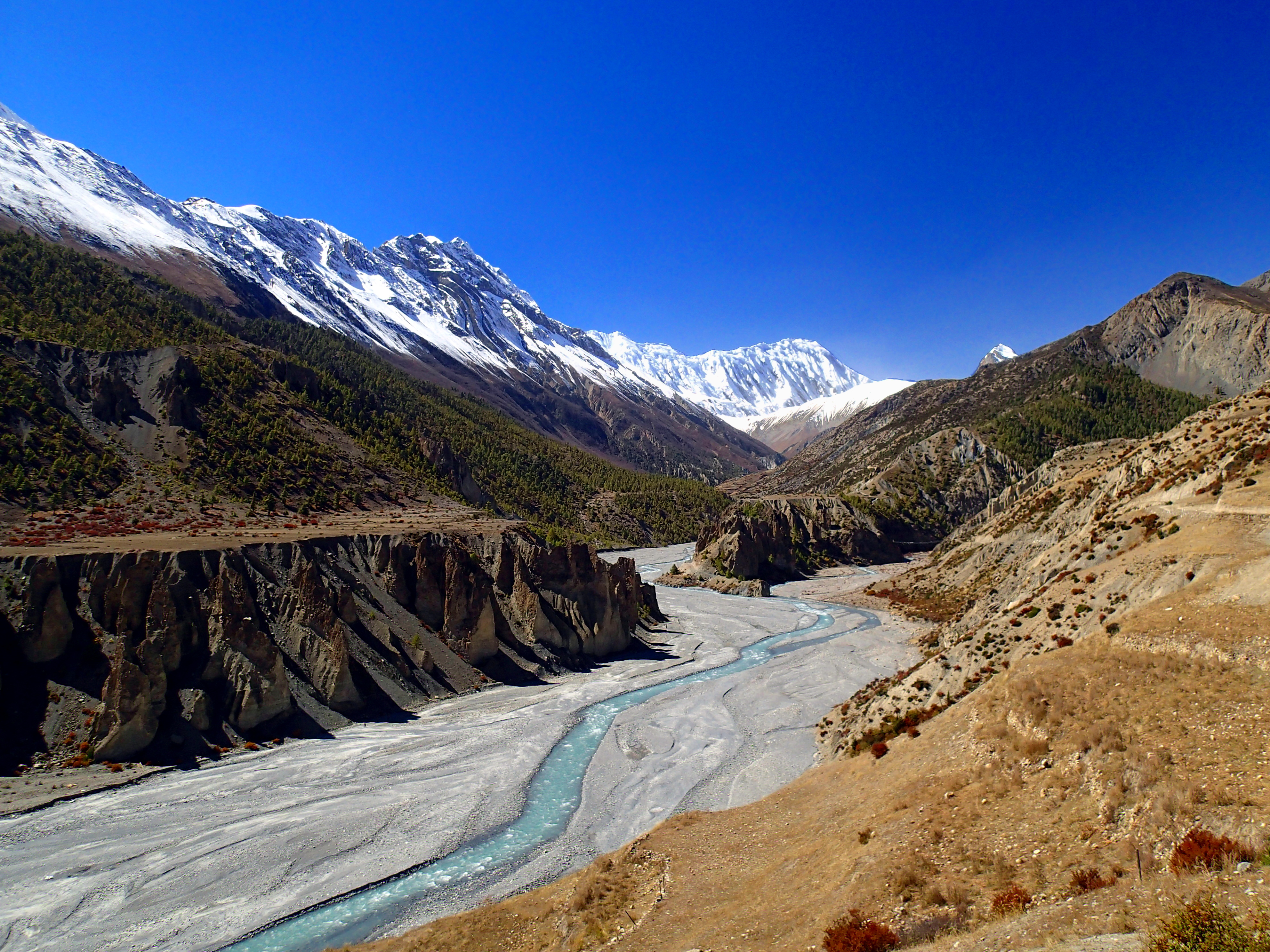 Confluence of Marsyagdi and Jharsang Khola, Annapurna Himal. Situated on the Annapurna Circuit trek upstream of Manang. The path can just be made out on far right leading down to the suspension bridge over the Jharsang Khola.